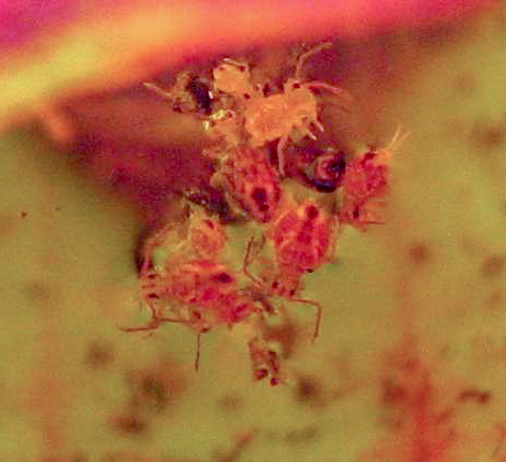 Globular springtails, Dicyrtomina minuta, floating inside pitcher plant. Size: 1-2 mm roughly. Pennypack Restoration Trust, Montgomery County, Pennsylvania, USA.